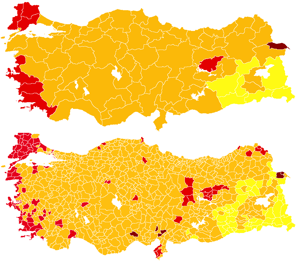 Map showing the voting intentions of the 81 provincial capitals of Turkey by party in the 2011 general elections. Original (blank) file by Atilim Gunes Baydin is here